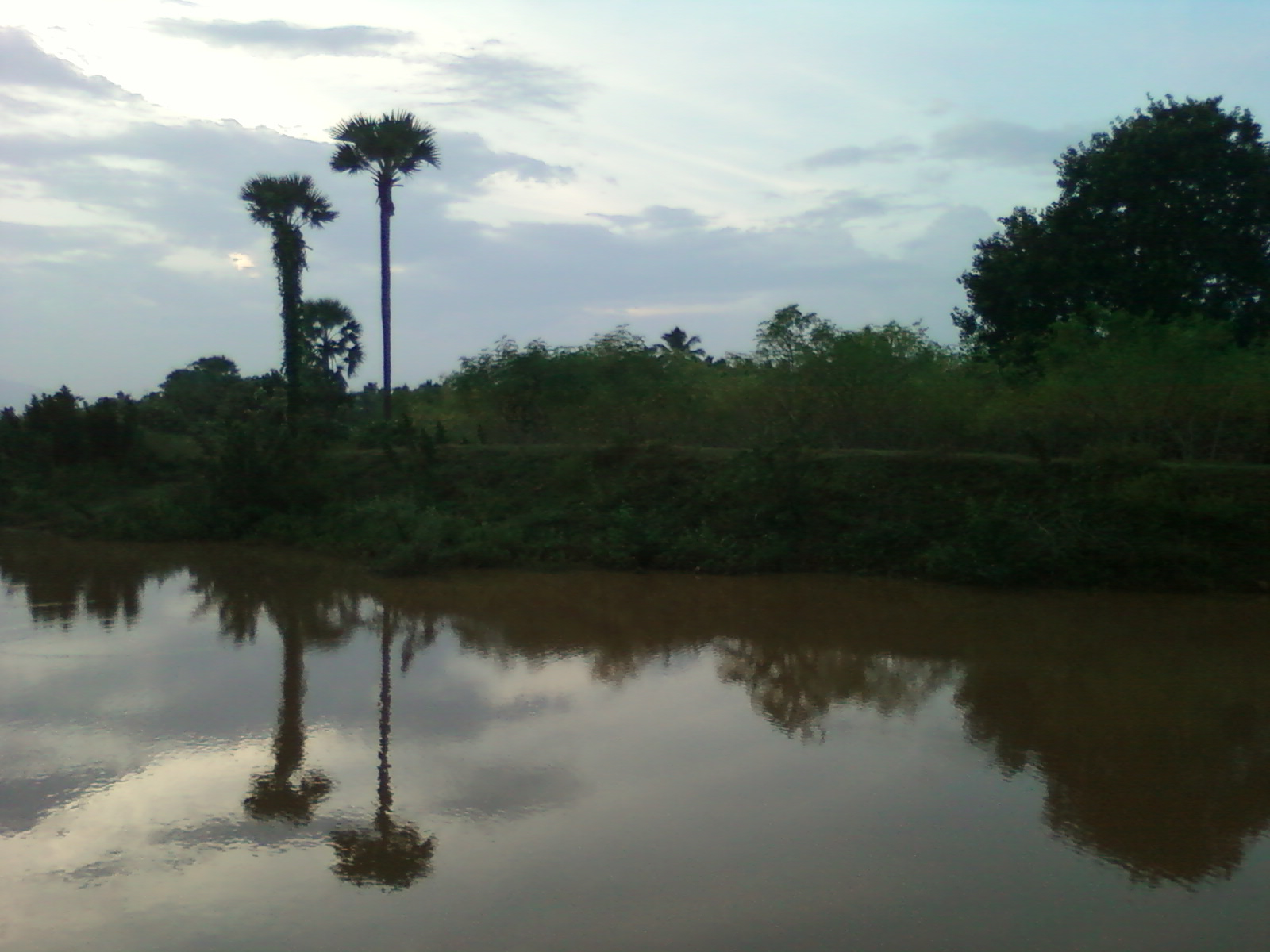 View of Peddipalem lake in Visakhapatnam district of Andhra Pradesh